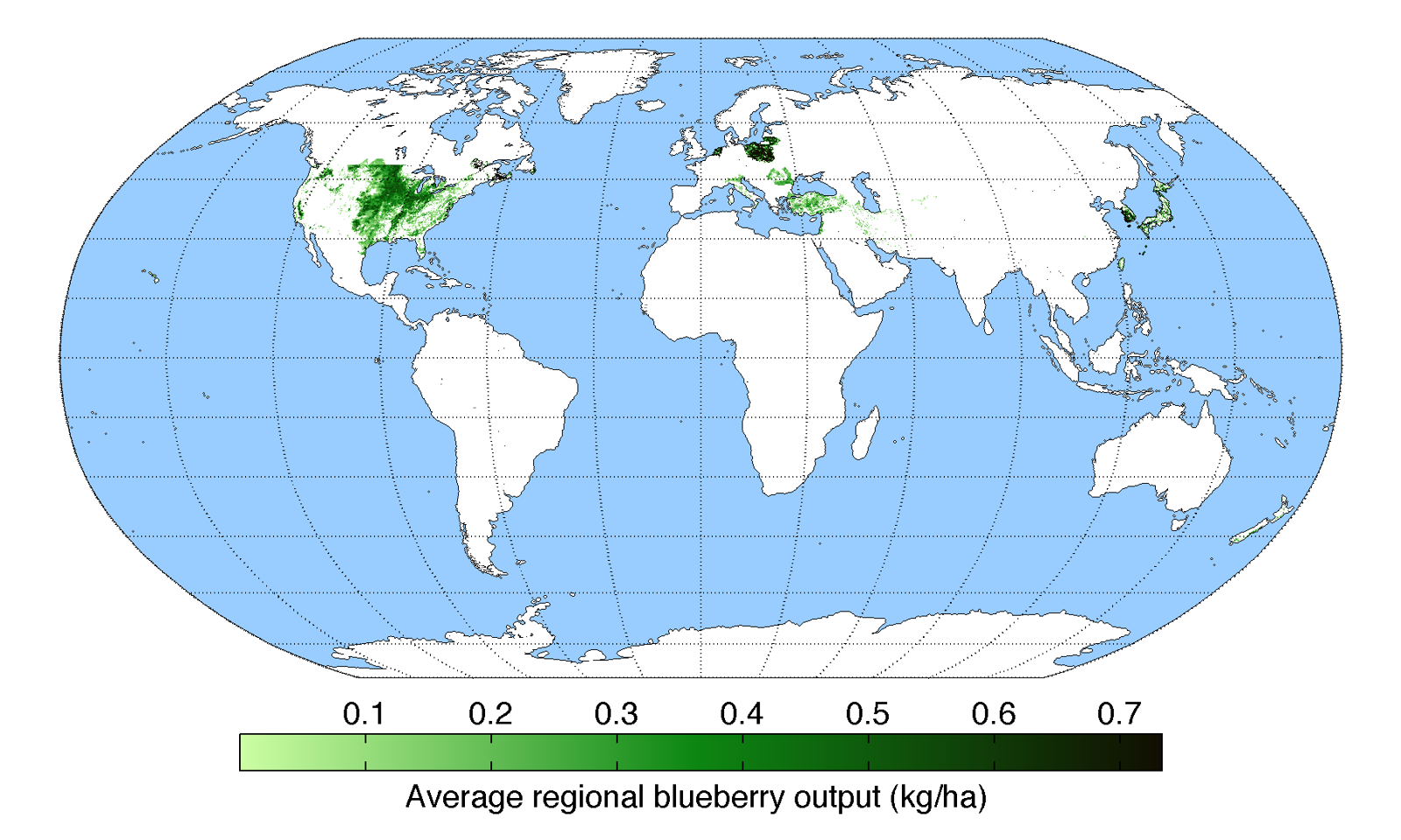 Map of blueberry production (average percentage of land used for its production times average yield in each grid cell) across the world compiled by the University of Minnesota Institute on the Environment with data from: Monfreda, C., N. Ramankutty, and J.A. Foley. 2008. Farming the planet: 2. Geographic distribution of crop areas, yields, physiological types, and net primary production in the year 2000. Global Biogeochemical Cycles 22: GB1022 (check: this map does not show current (2013) world production as it has no data for the large production in Argentina, Australia, Chile; though New Zealand has some data)